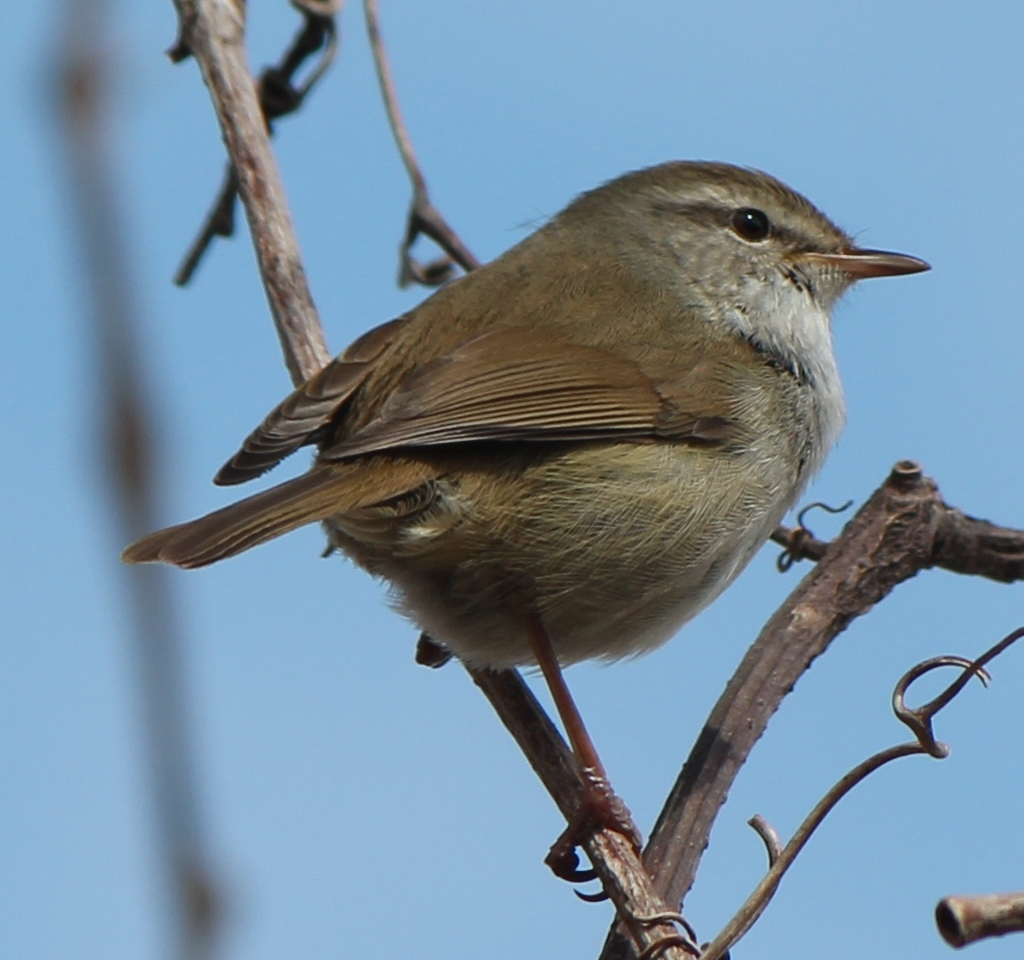 Cettia diphone cantans (Japanese Bush Warbler) on branch, male in Aichi prefecture, Japan.